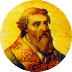 Portait of Pope Nicholas IV in the Basilica of Saint Paul Outside the Walls, Rome